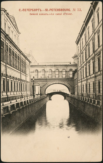 Saint Petersburg (Russia), Winter Canal.